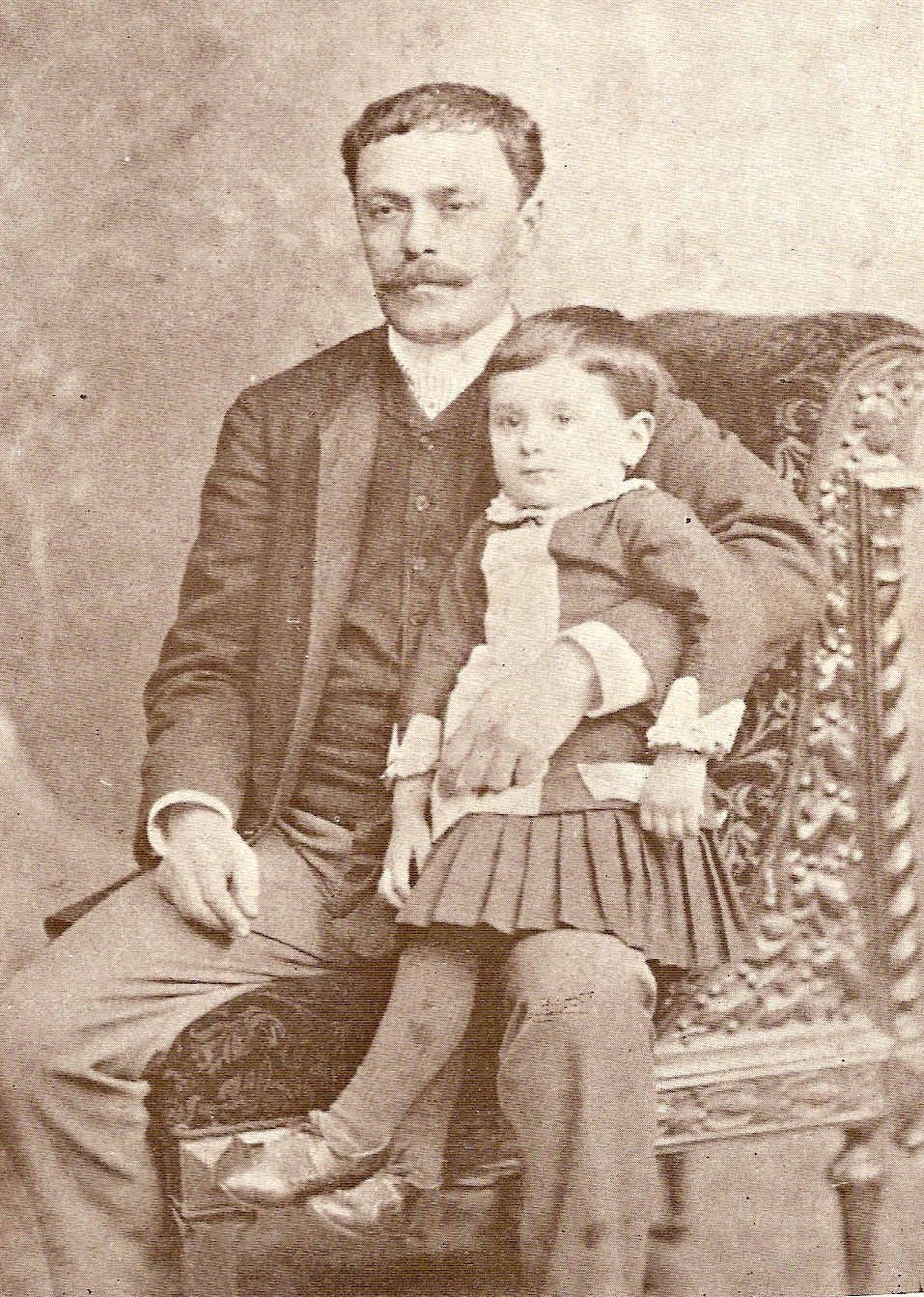 Photograph of Ion Luca Caragiale and his son Mateiu